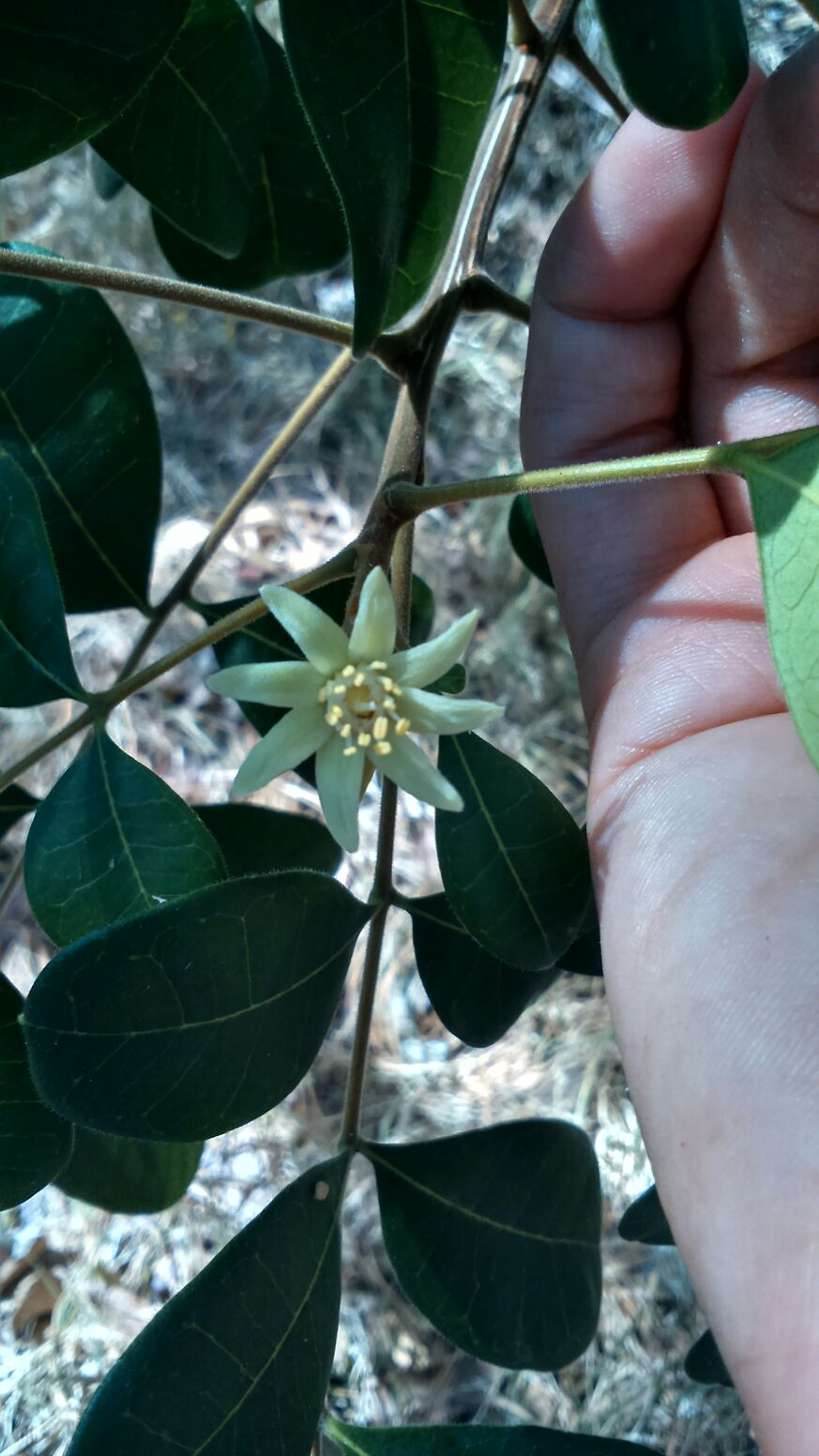 Flower of the specie Simaba ferruginea, family Simaroubaceae